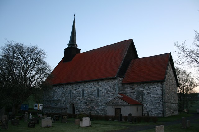 Stiklestad church